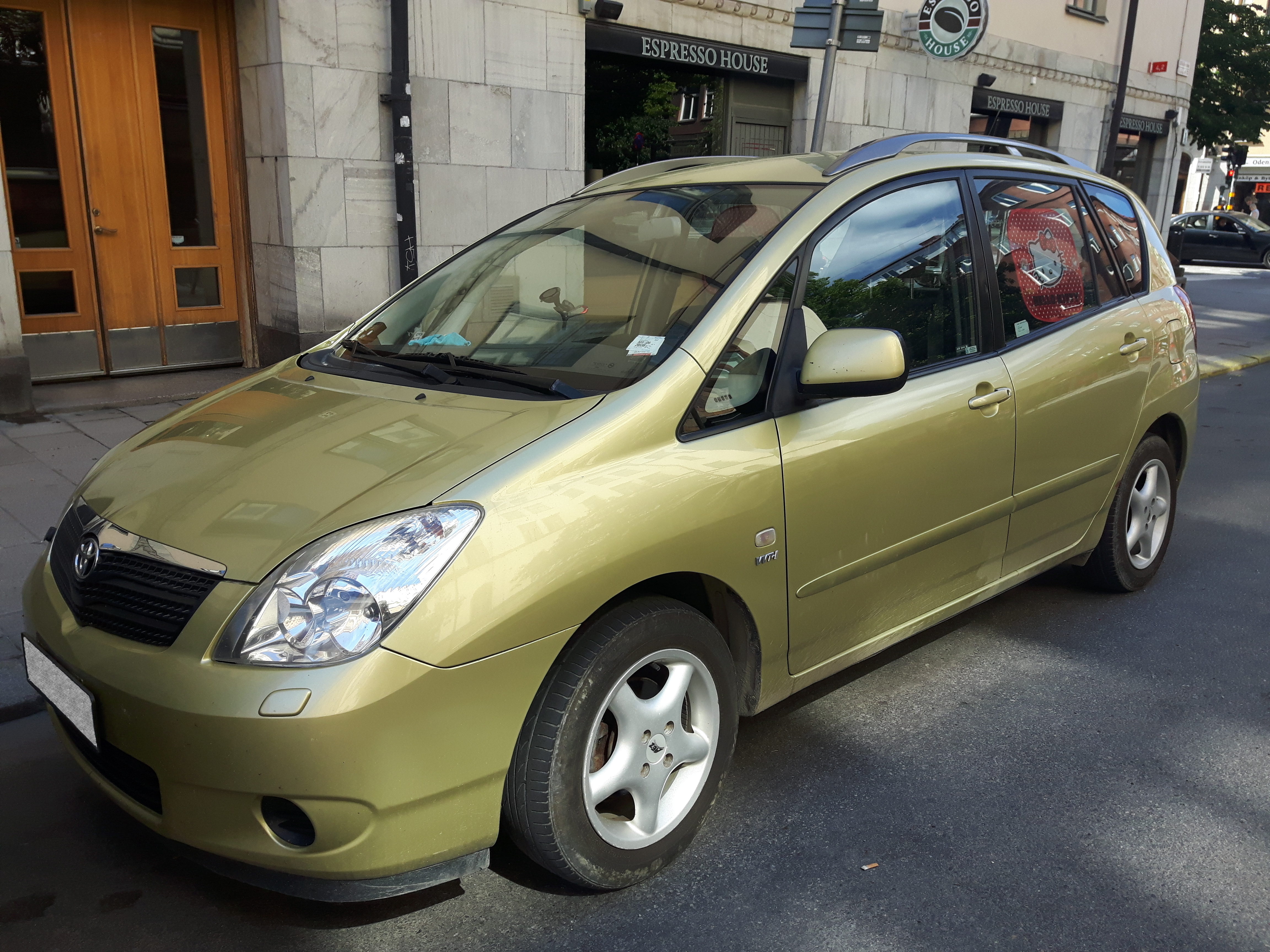 Toyota Corolla Verso